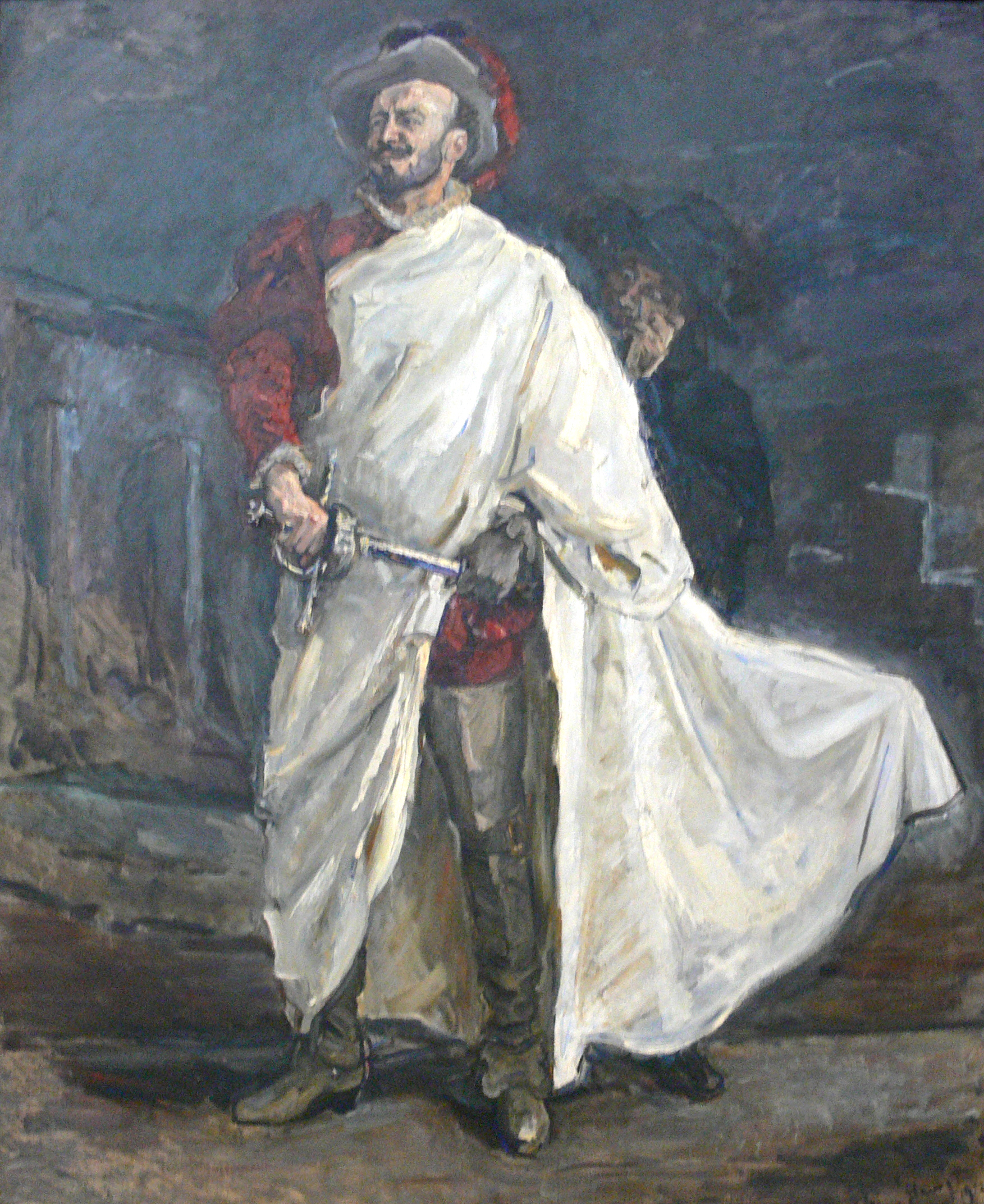 One of three paintings by Slevogt that portrait d'Andrade in this role. The painting depicts the scene when Don Giovanni invites the dead Commendatore to dinner (O statua gentilissima), with Leporello hiding behind him.